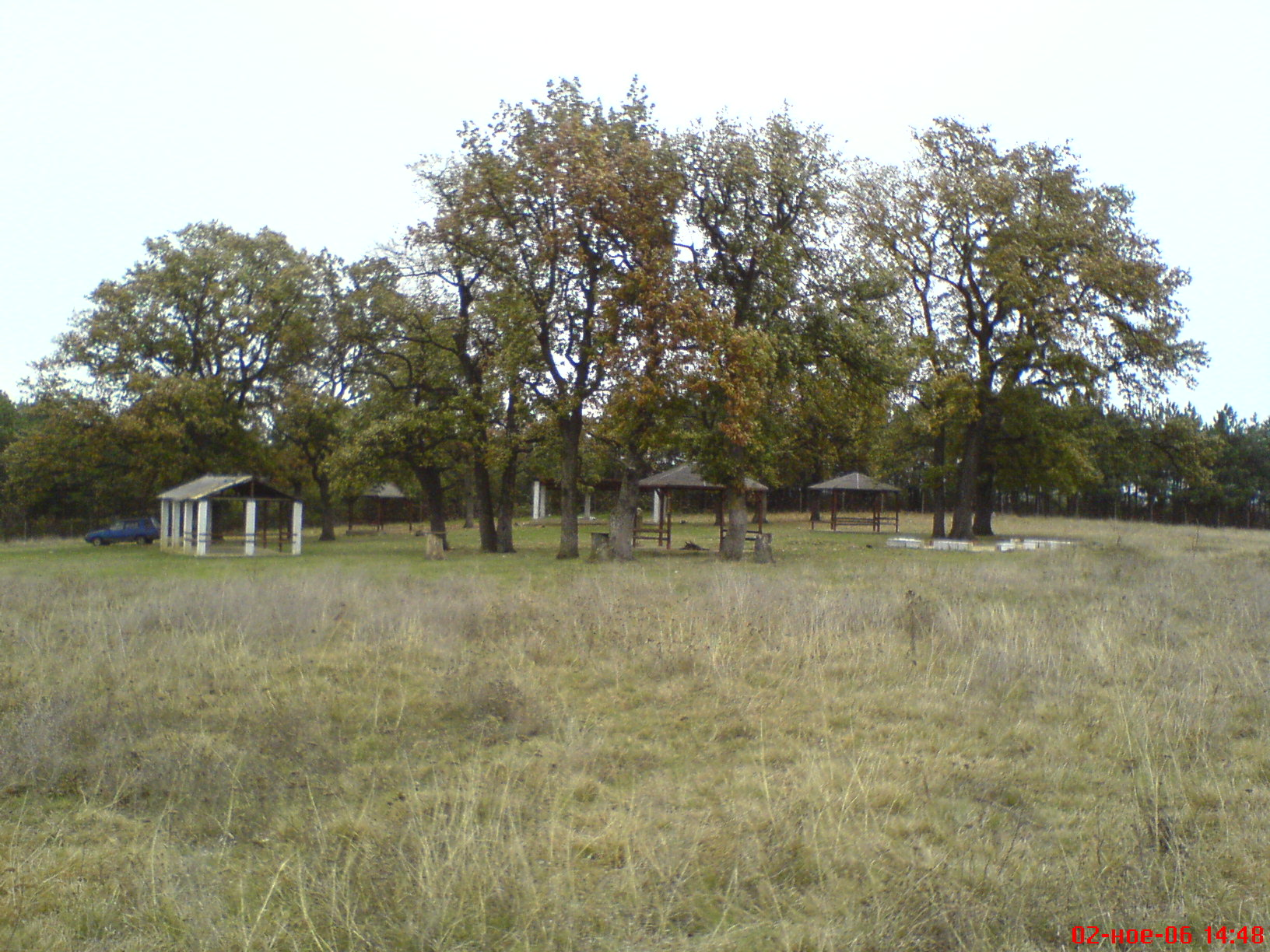 The locality Kitkata near village Studeno buche (Bulgaria) where the folklore fairs and fellow villagers gatherings take place.